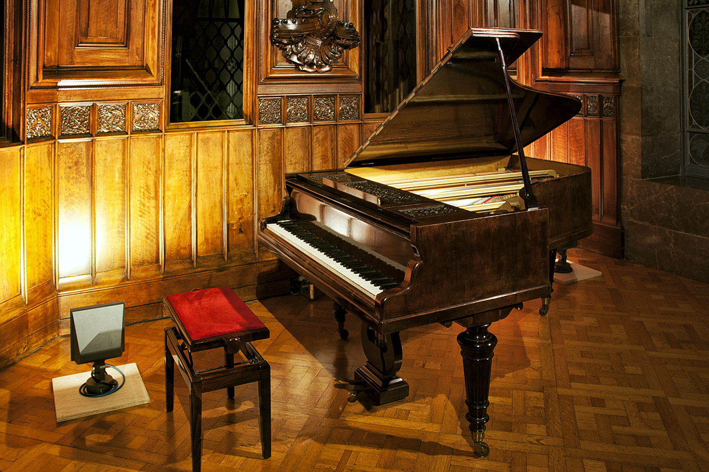 Piano Érard (1885), Palau Güell de Barcelona